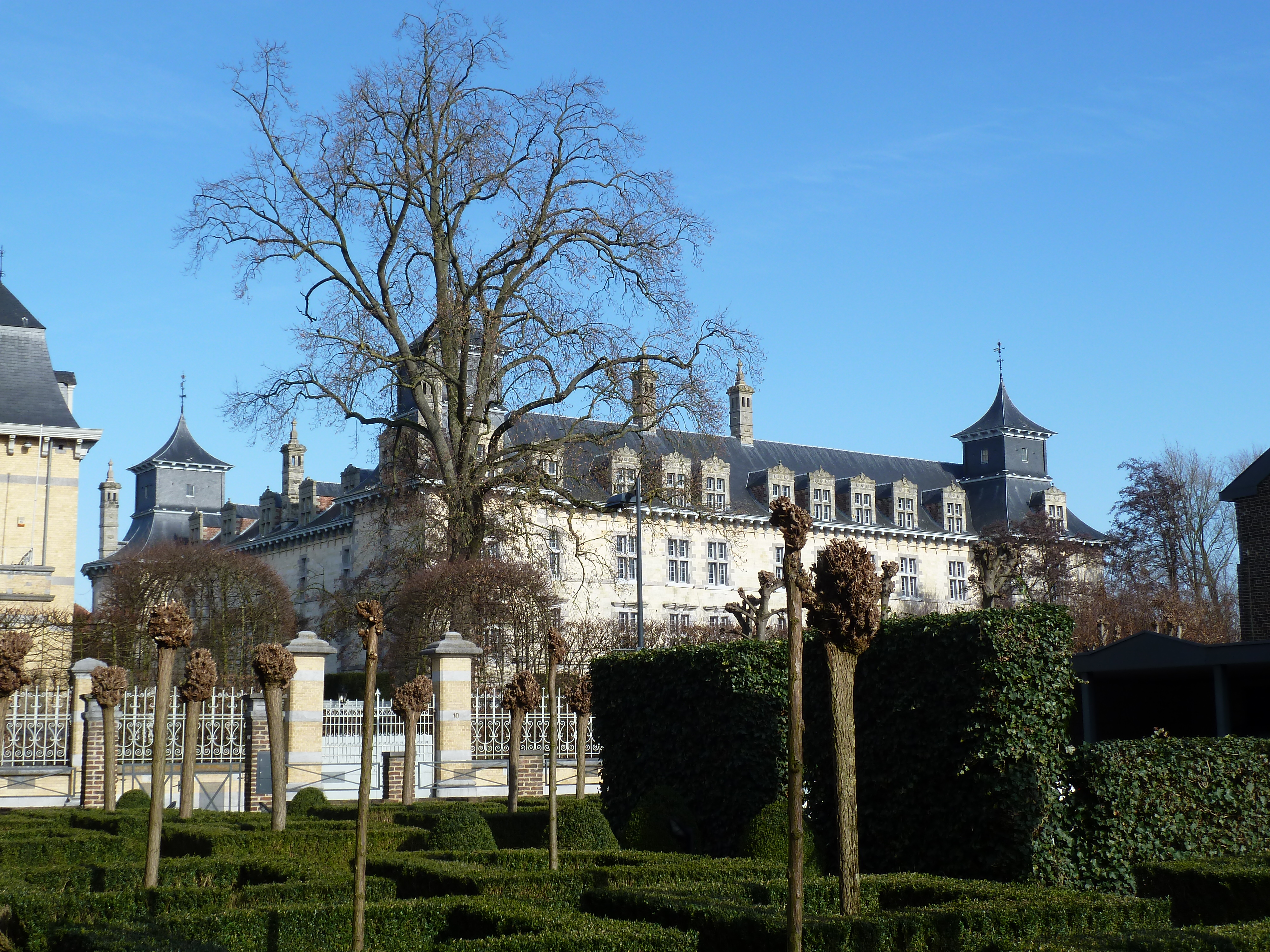 Aspremont-Lynden Castle, Oud-Rekem, Belgium